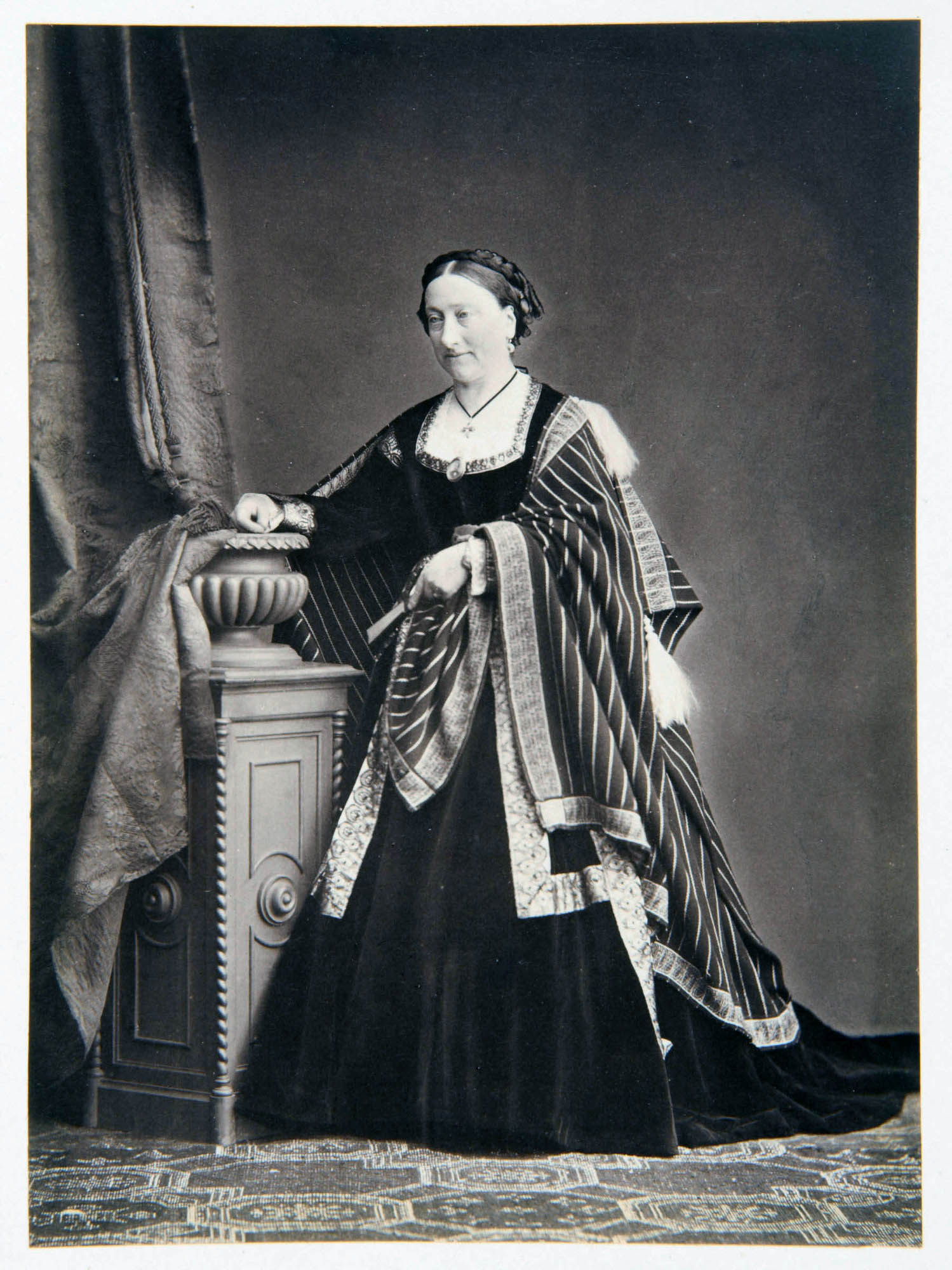 Photograph of the Duchess of Saxe Coburg Gotha facing three-quarters left. She wears a low neckline velvet dress with a shawl that has a vertically aligned pattern. Her right hand rests on a studio vase and she holds a fan in her left hand. Her hair is plaited.